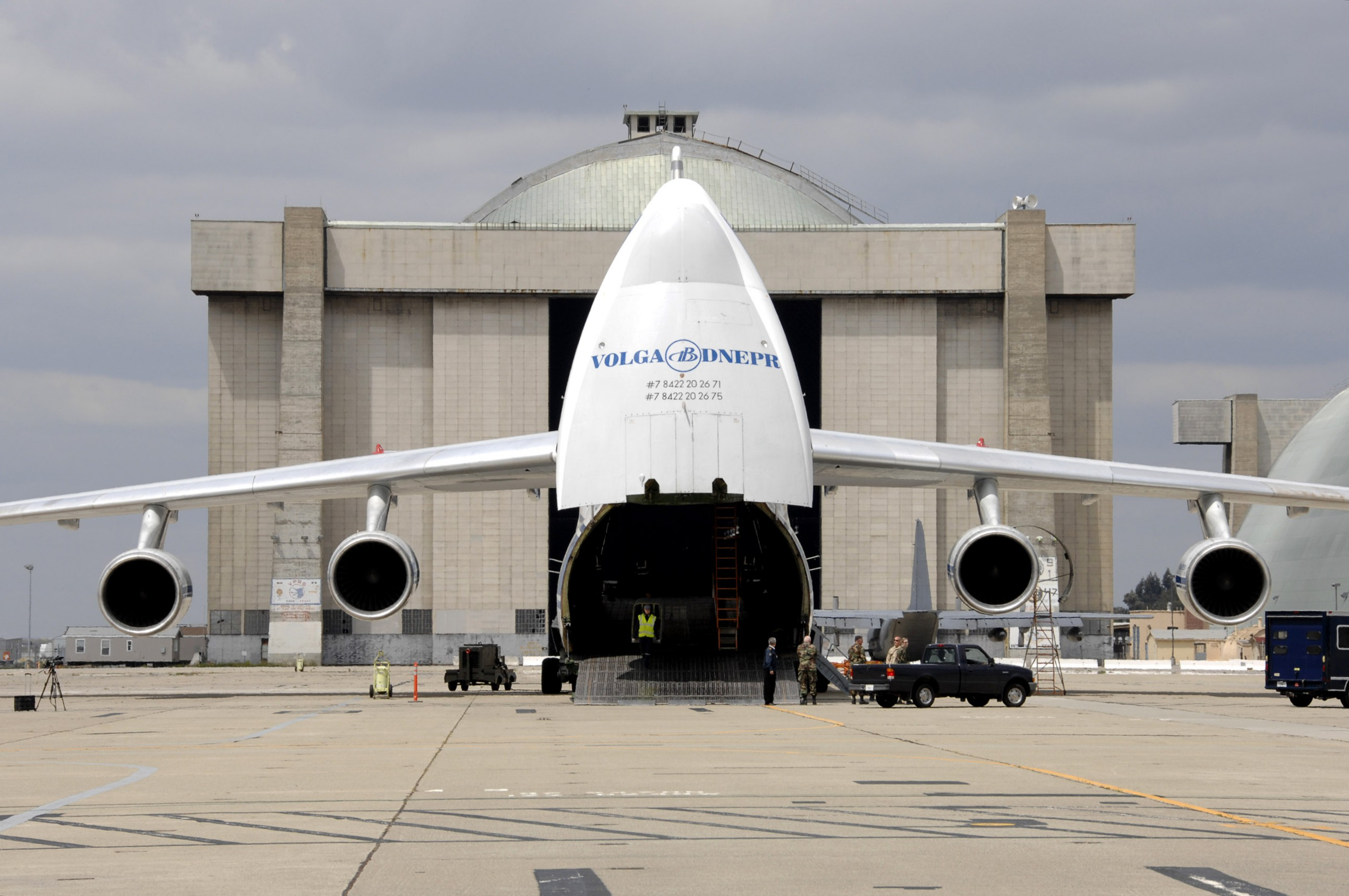 Airmen from the 129th Rescue Wing load a HH-60G Pave Hawk rescue helicopter onto a Russian Volga-Dnepr AN-124 long-range heavy transport aircraft, photographed with its front door open. This photo was taken April 20 at Moffett Federal Airfield, Calif. The contracted AN-124 transported 129th Rescue Wing deployment cargo to Afghanistan because the high operations tempos of Operations Iraqi Freedom and Enduring Freedom have kept C-17 Globemaster III and C-5 Galaxy aircraft fully engaged.